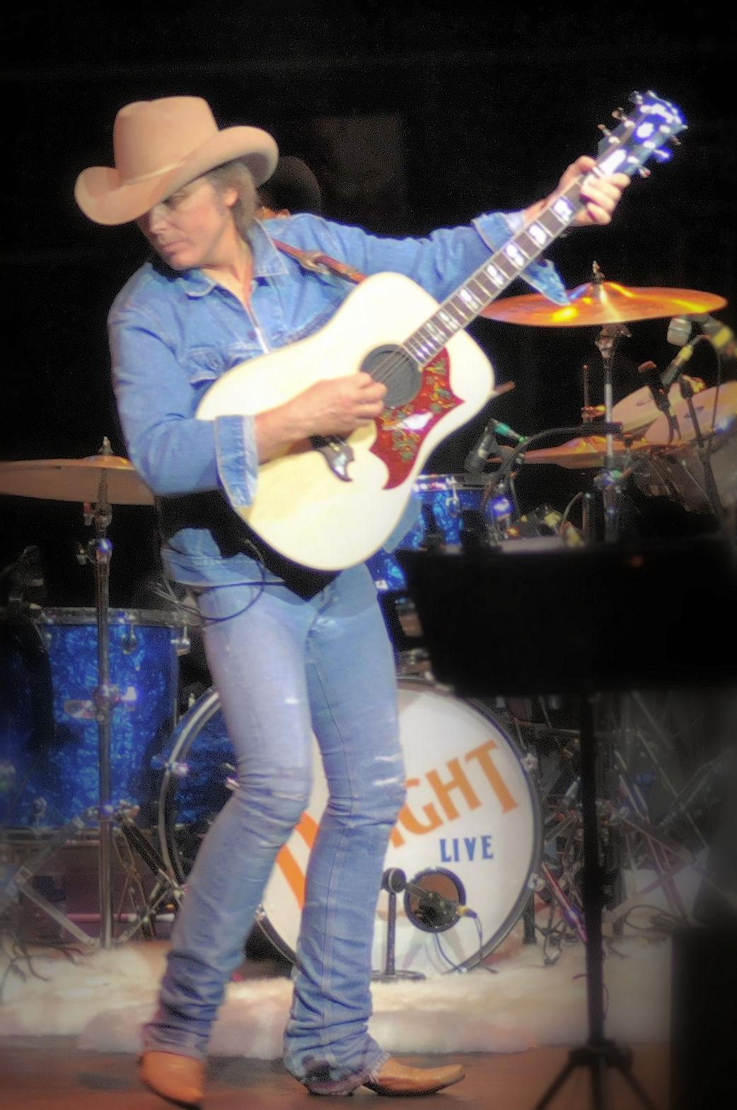 Dwight Yoakam performing at the 2008 San Diego County Fair